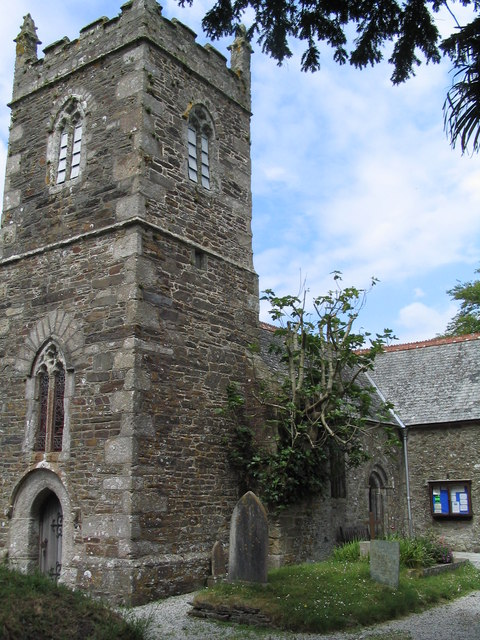 Church of St Manacca, Manaccan. The fig tree growing out of the south wall is said to be 200 years old